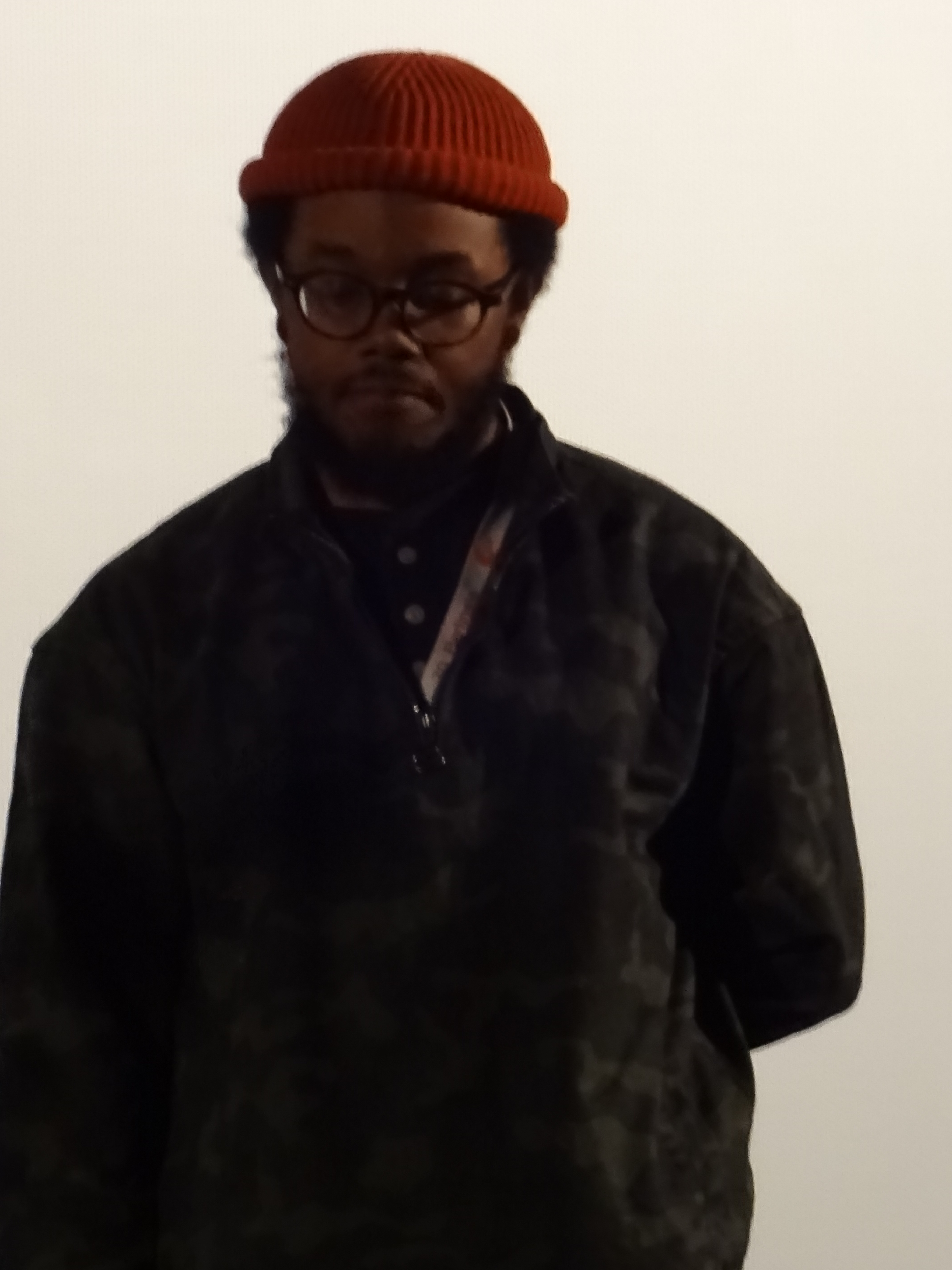 US-American cinematographer Terence Price II at a Q&A at Berlinale 2020, Berlin, February 2020